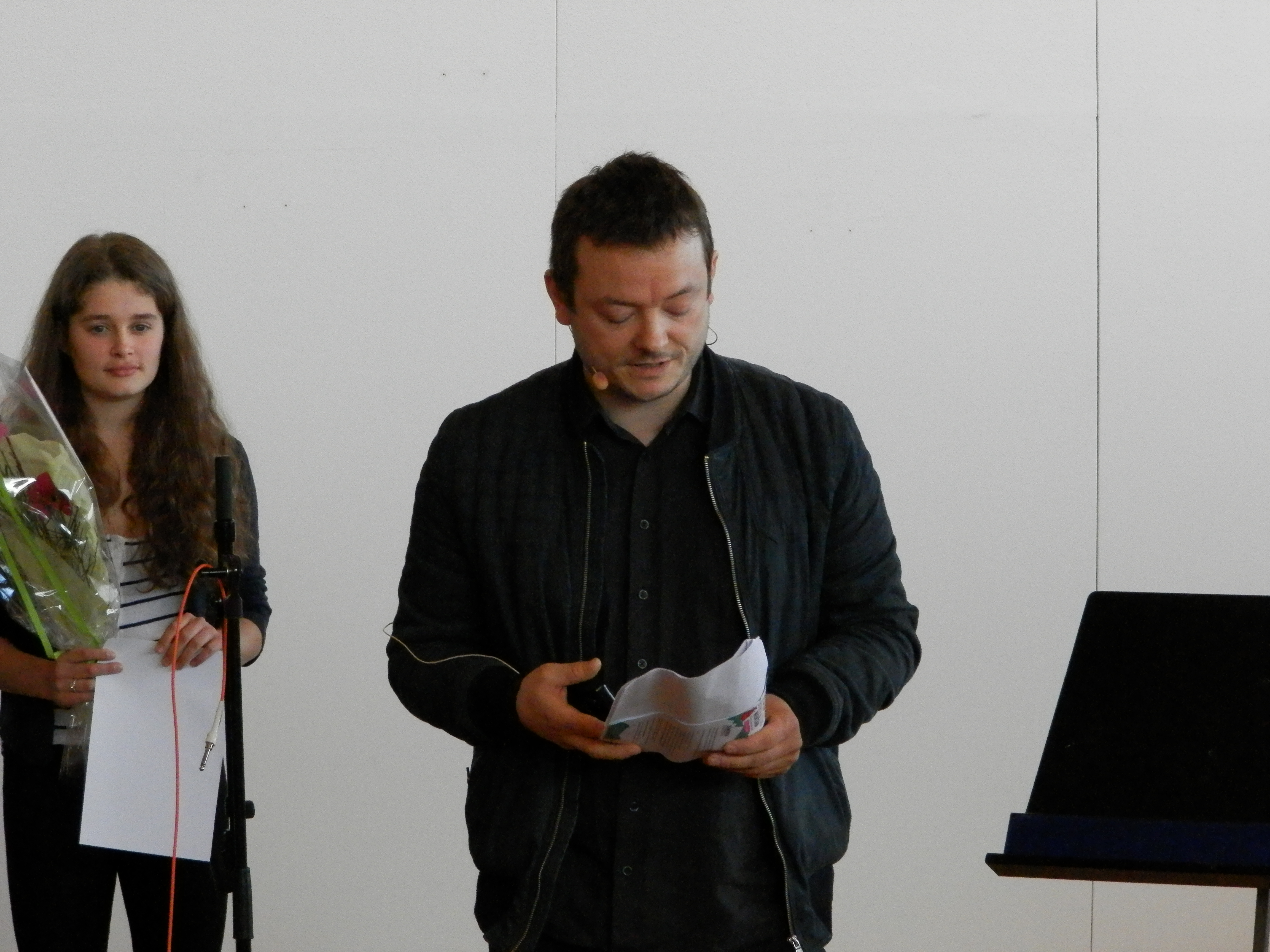 Sámal Soll is a Faroese writer.